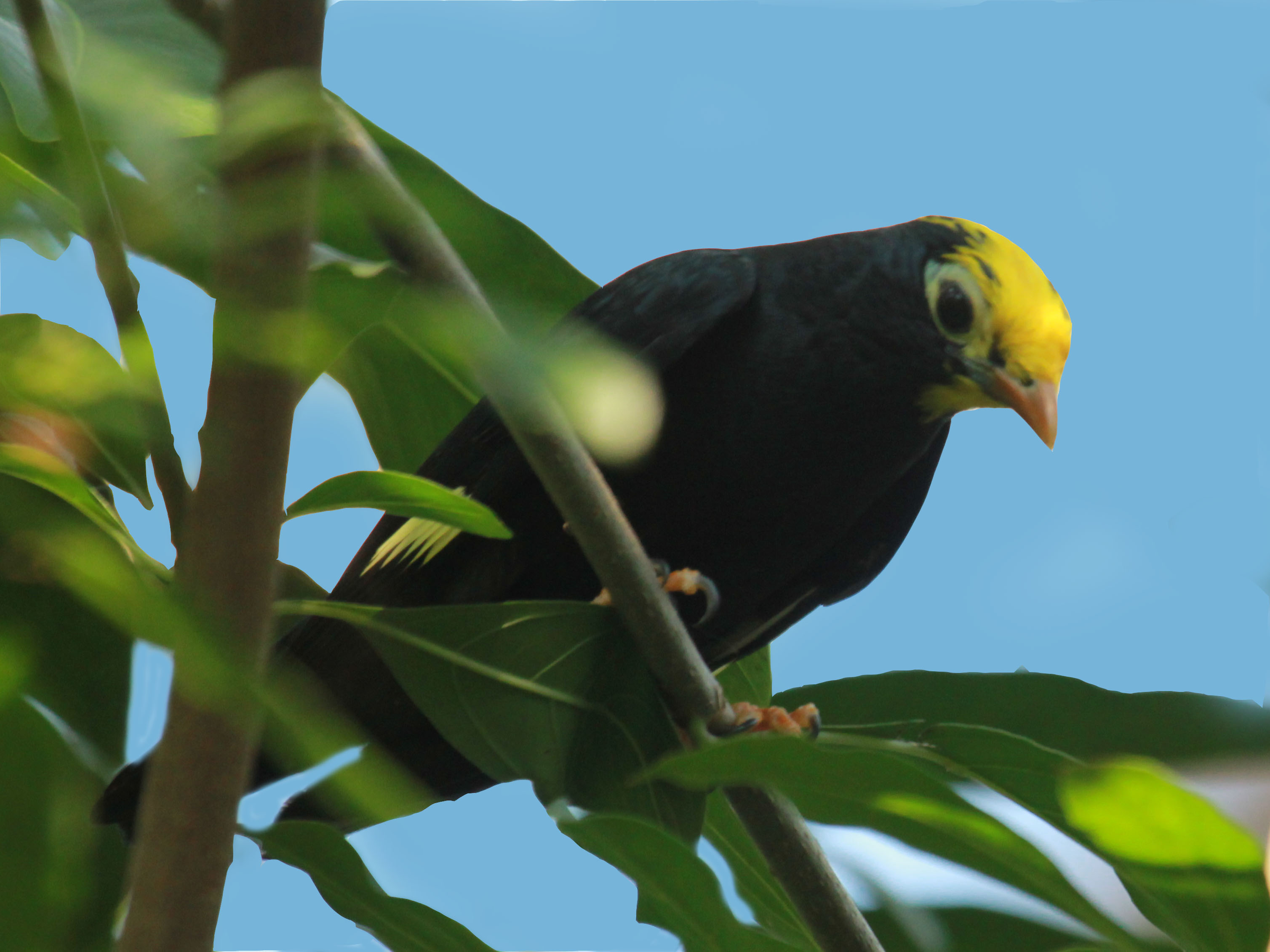 Golden-crested Myna (Ampeliceps coronatus) at the North Carolina Zoo in Ashboro, North Carolina